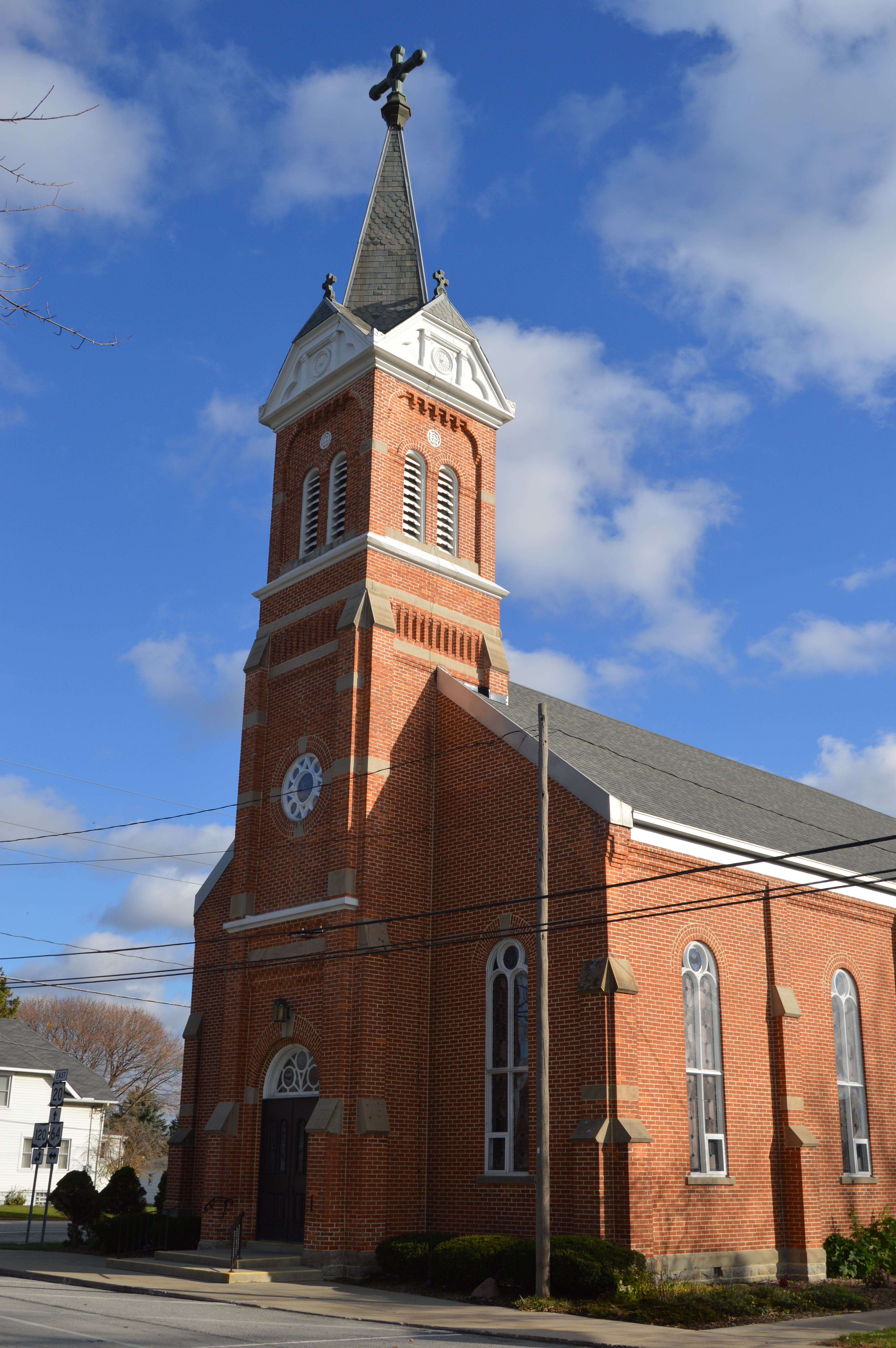 Front of Holy Trinity Catholic Church (formerly St. Mary's Catholic Church), located on the southeastern corner of the intersection of U.S. Route 20 and State Route 64 at Assumption in Amboy Township, Fulton County, Ohio, United States. It was built in 1888.